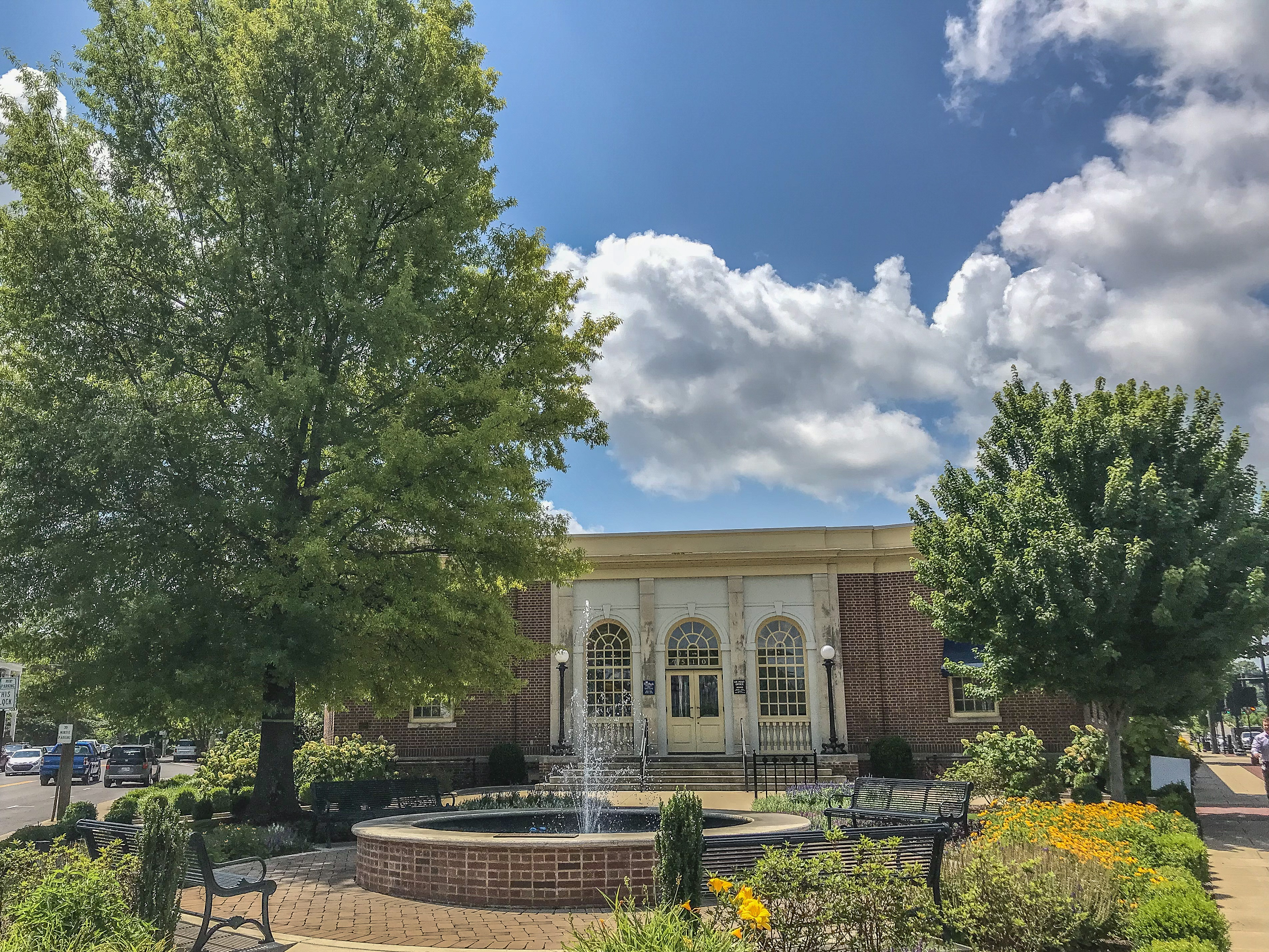 Historic Five Points, Franklin, TN.